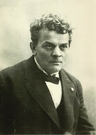 Adolph Frederik Charles Meyer (1858-1938), Danish politician, MP